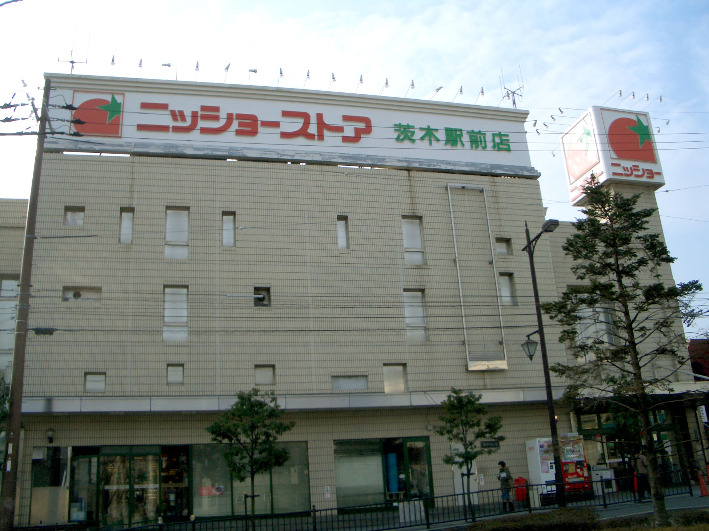 Hankyu Nissho Store Ibaraki-Ekimae,2-2 Nishichujocho Ibaraki-City Osaka Japan.